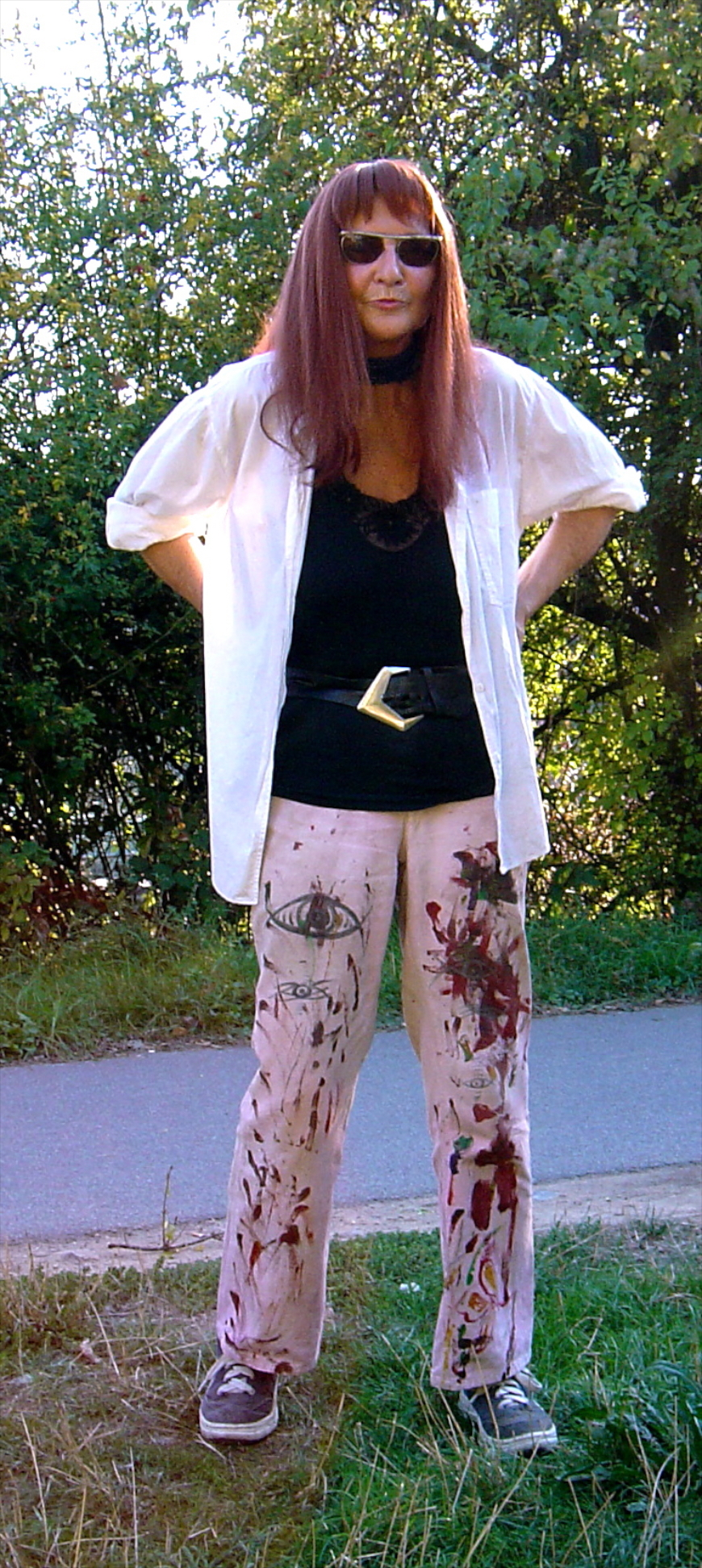 Eva Vargas Rest-Art-Zentrum Heidelberg